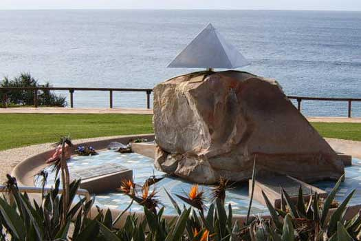 Australian Hospital Ship Centaur was sunk during World War II at 4.10am on 14 May 1943 off Stradbroke Island, Queensland, by a torpedo from the Japanese Navy submarine I-177. The ship sank within 3 minutes. The Centaur memorial is at Point Danger, Coolangatta.